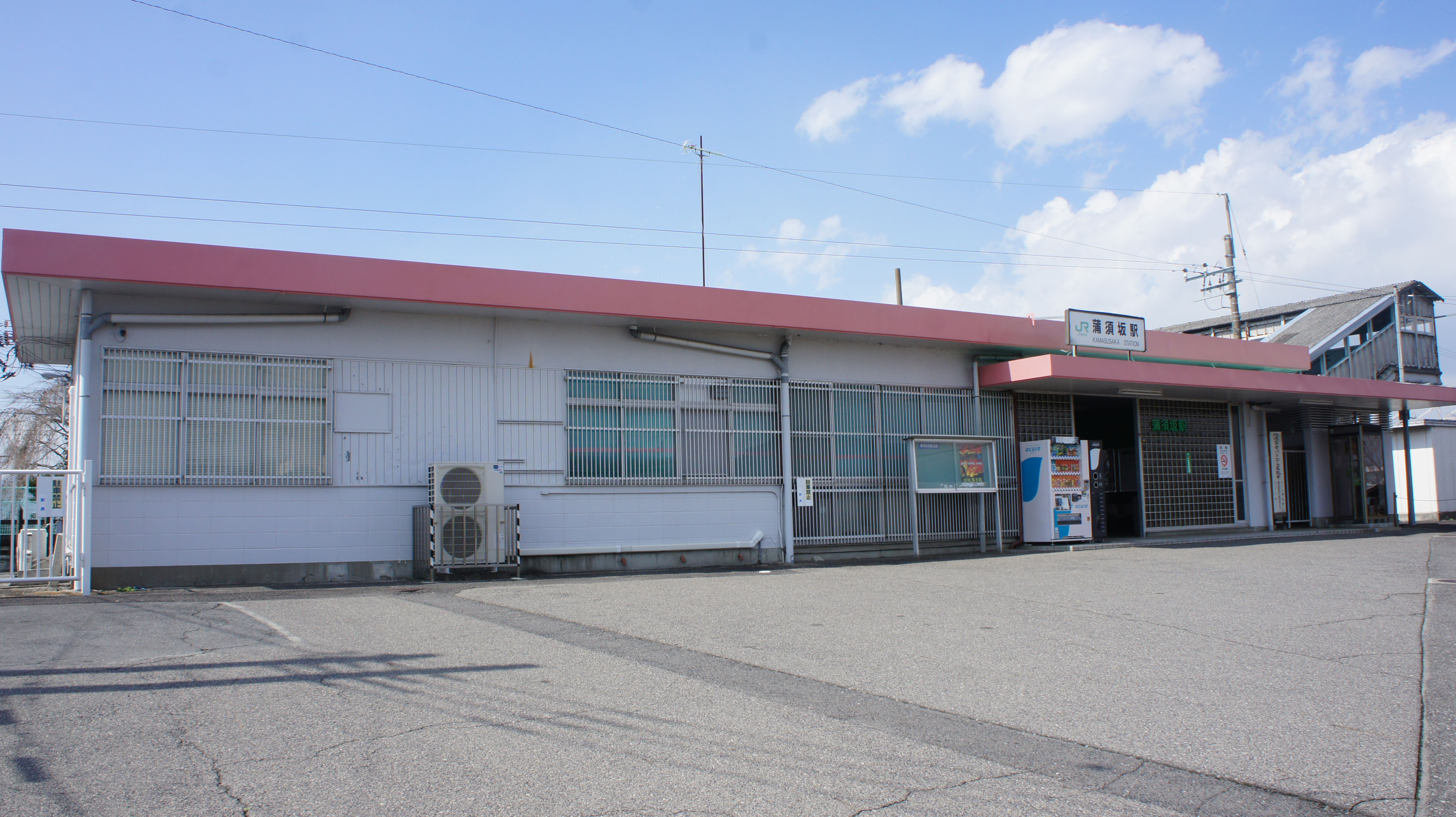 Station building of JR Tohoku-Main-Line (Utsunomiya-Line) Kamasusaka Station Sony NEX-3